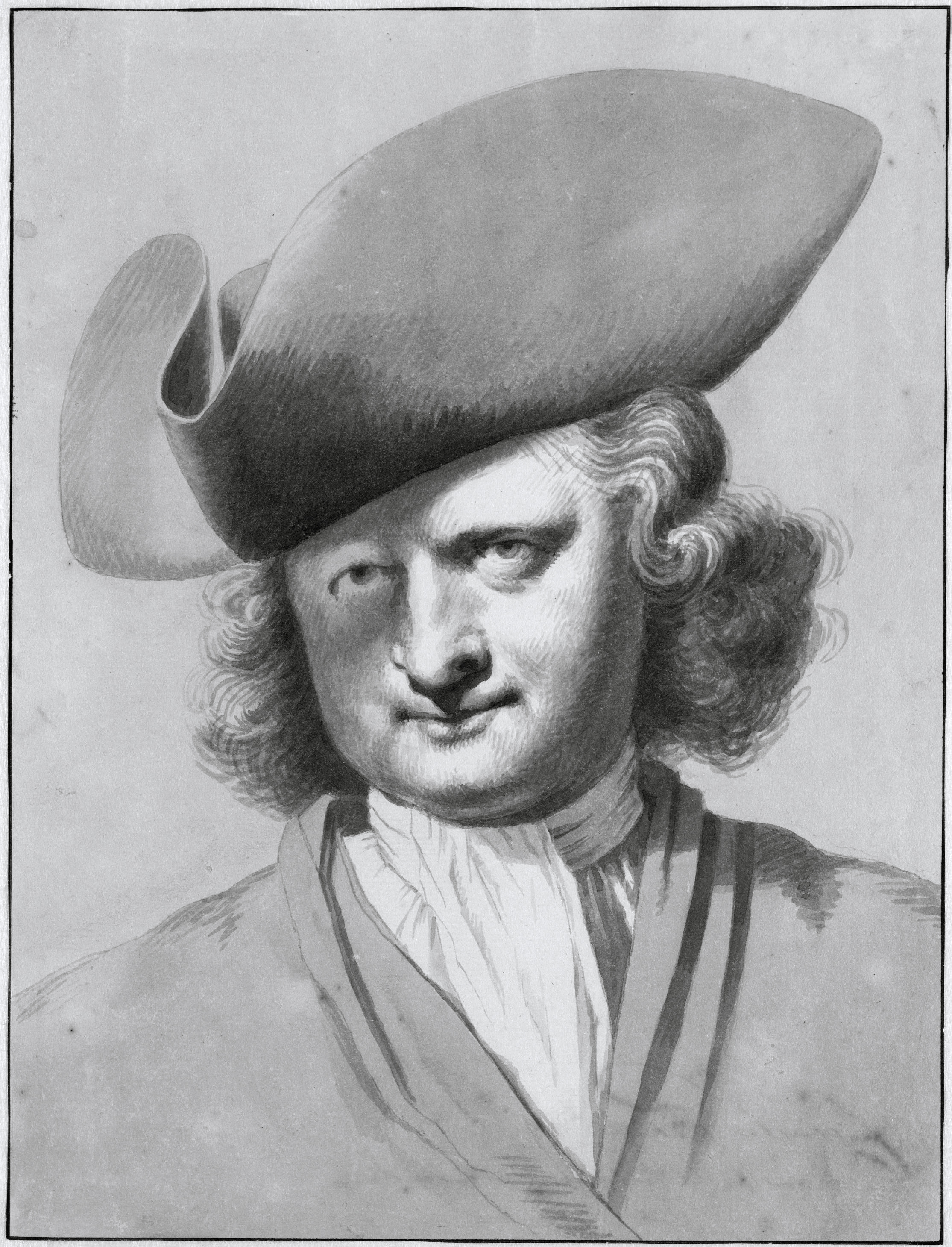 Cornelis Pronk (1691-1759) drawing 1725 - 1730